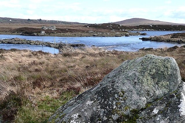 Loch Gleann Mhac Muirinn (Glenicmurrin Lough) This is the northern entrance of the lough, where Abhainn Gleann Mhac Muirinn (Glenicmurrin River) enters. It is just in this square.